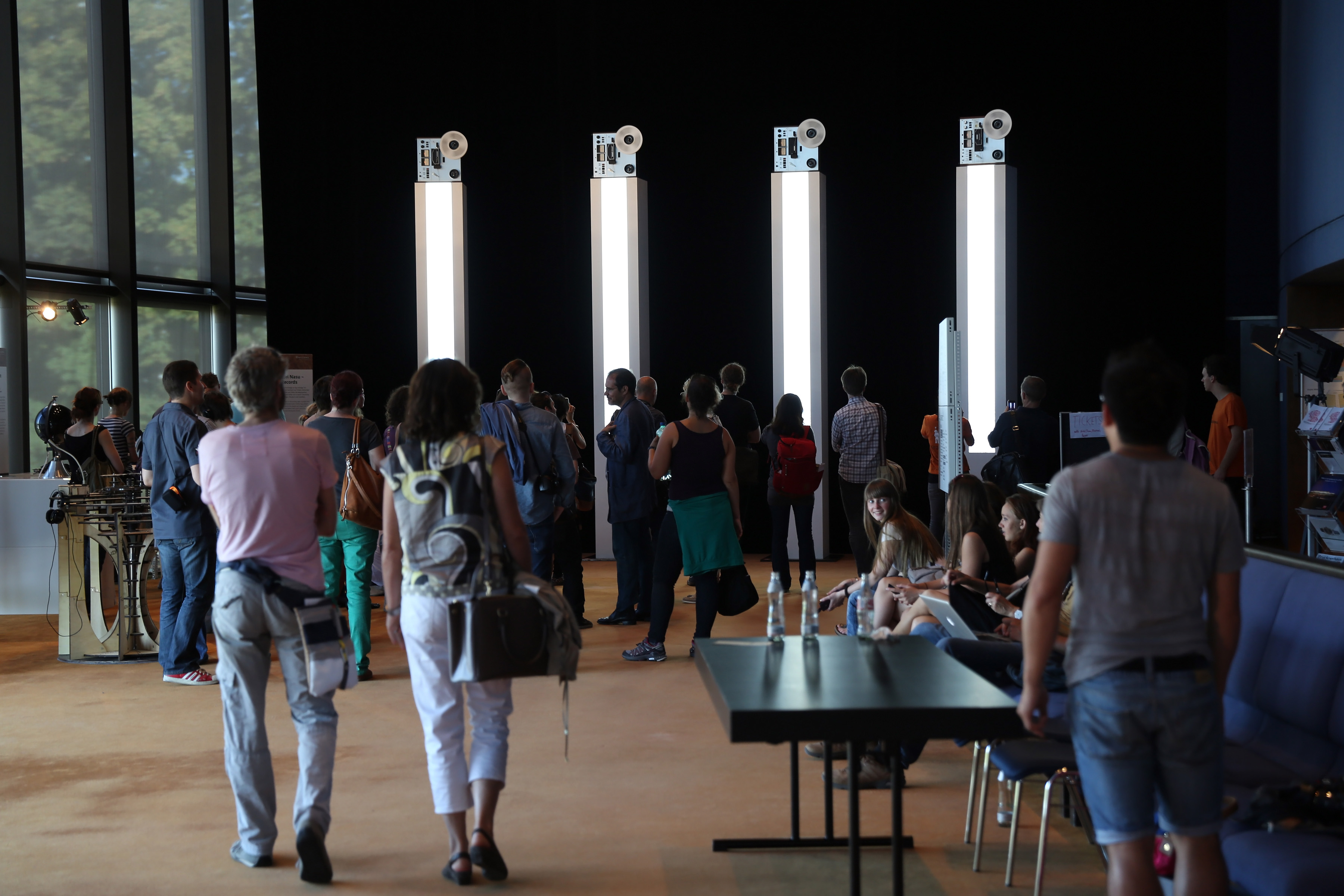 Toki Ori Ori Nasu – Falling Records - Ars Electronica 2013 at Brucknerhaus, Linz, Upper Austria.